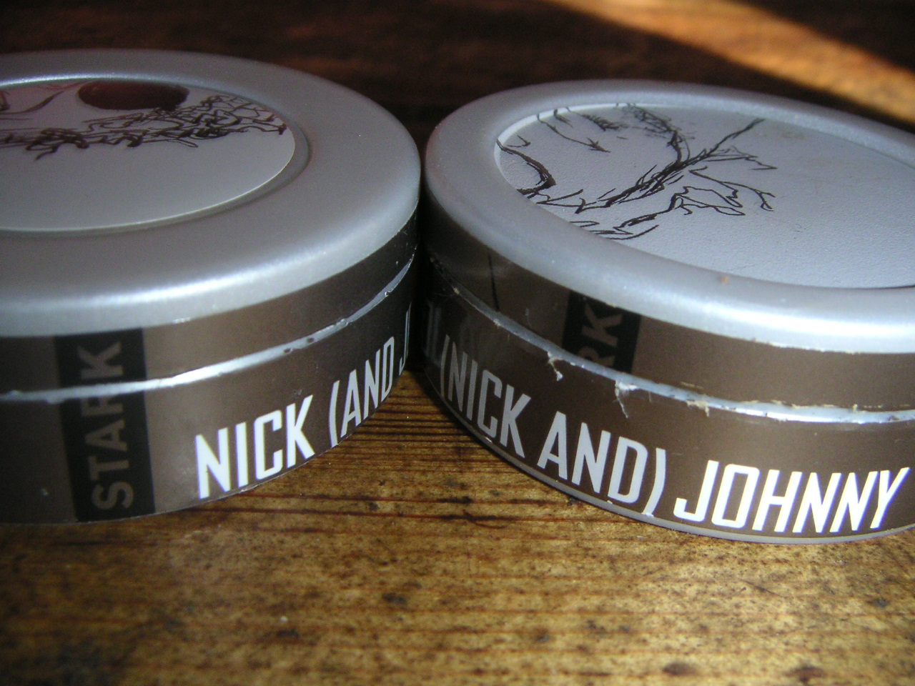 Snus by the brand Nick and Johnny